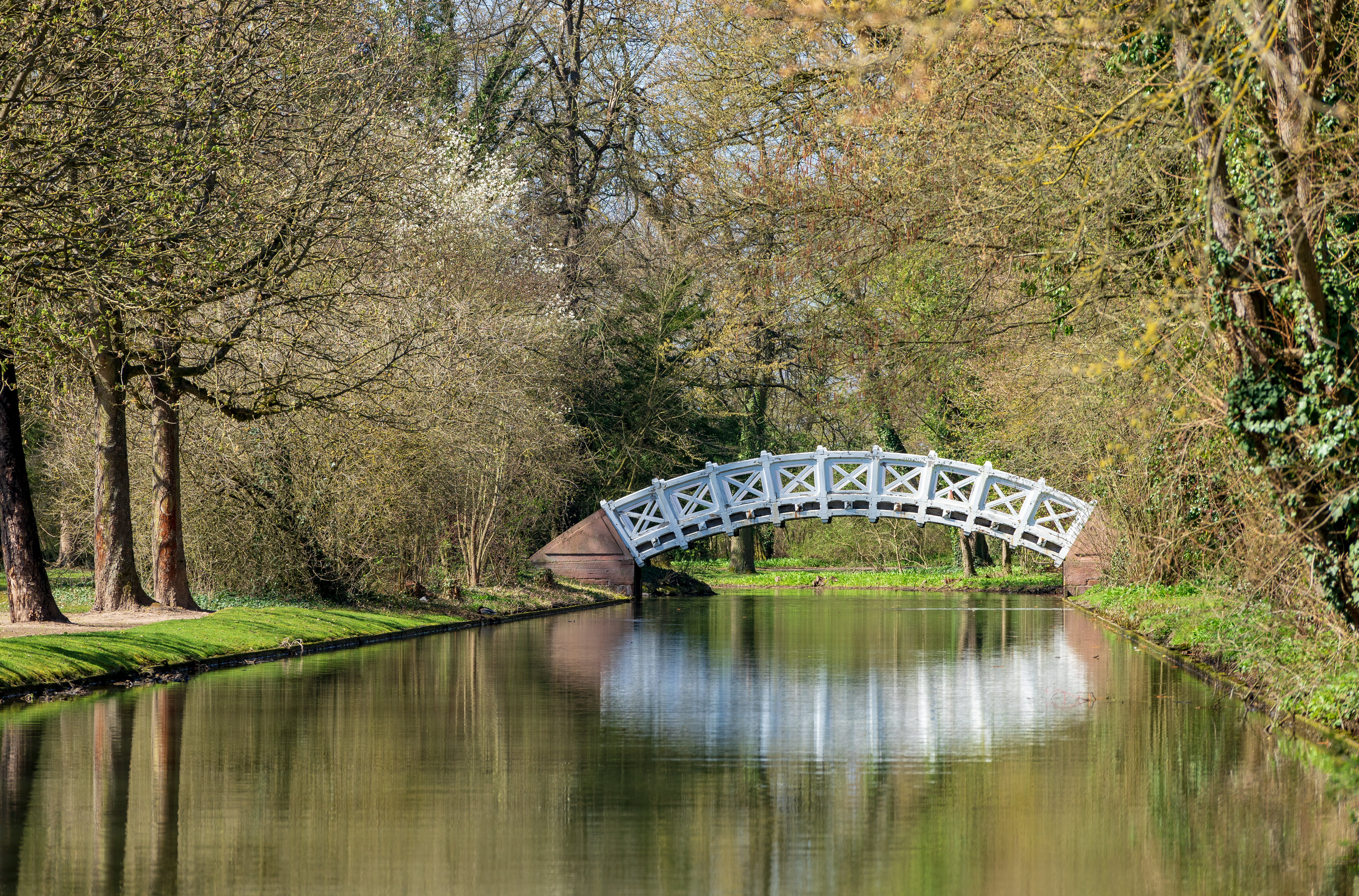 Schwetzingen, Germany, Schwetzingen Castle gardens: The so-called Chinese bridge or Palladio bridge, seen from east by north-east over the canal. The sparse greenery shows that it is spring.